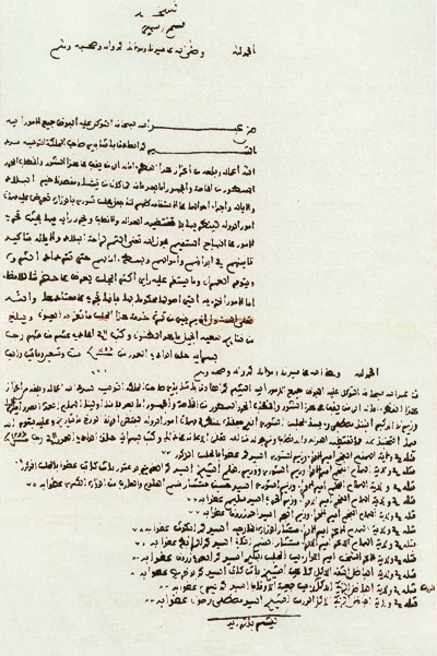 1860_majlis_choura_-_Tunisia. Document with members names